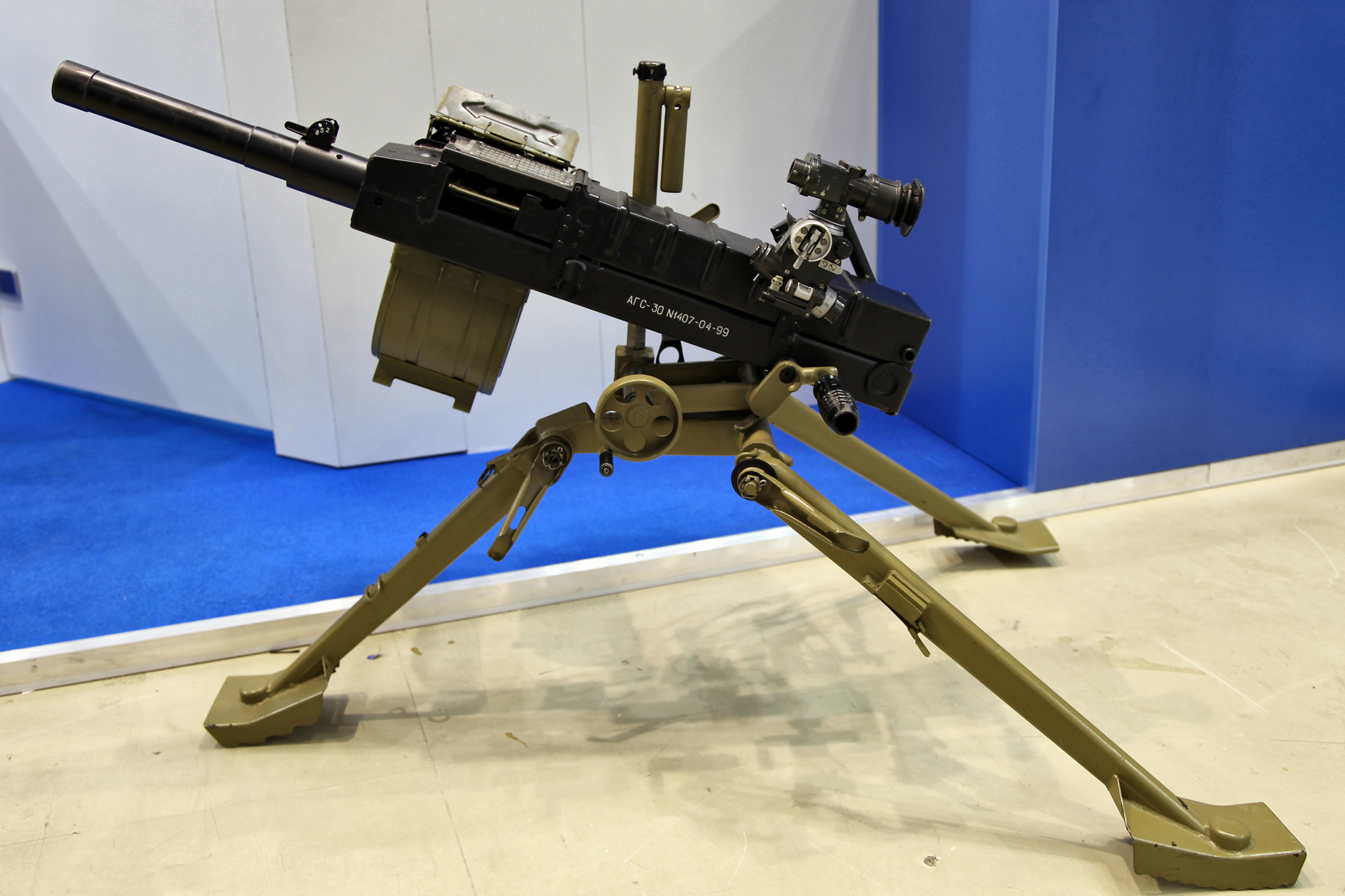 AGS-30 grenade launcher at Interpolitex-2012